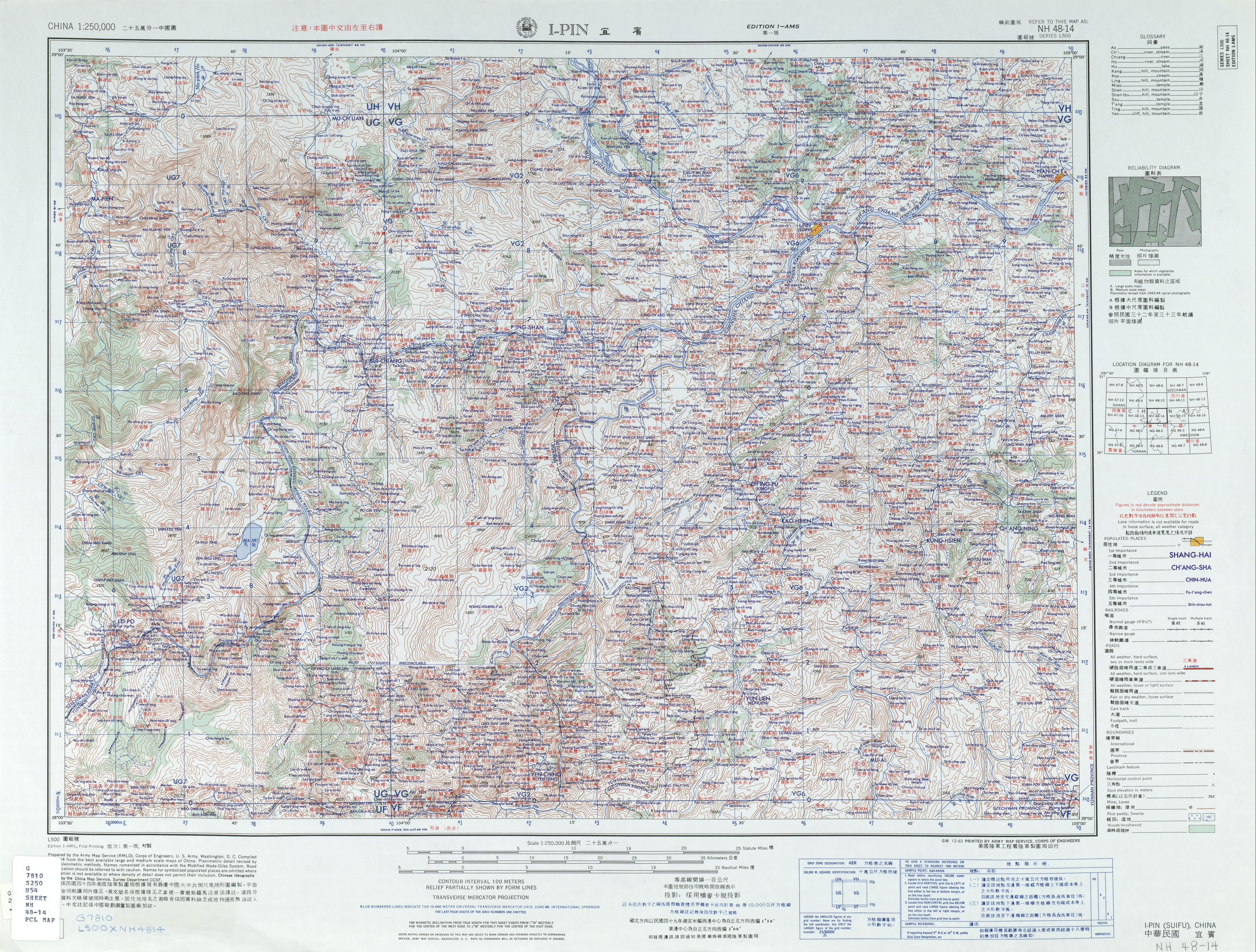 China AMS Topographic Maps